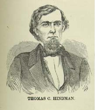 Cropped portrait of Thomas C. Hindman; original is a group portrait of (clockwise, starting from the upper left) Bushrod R. Johnson, Gideon J. Pillow, Hindman, and Leonidas Polk.